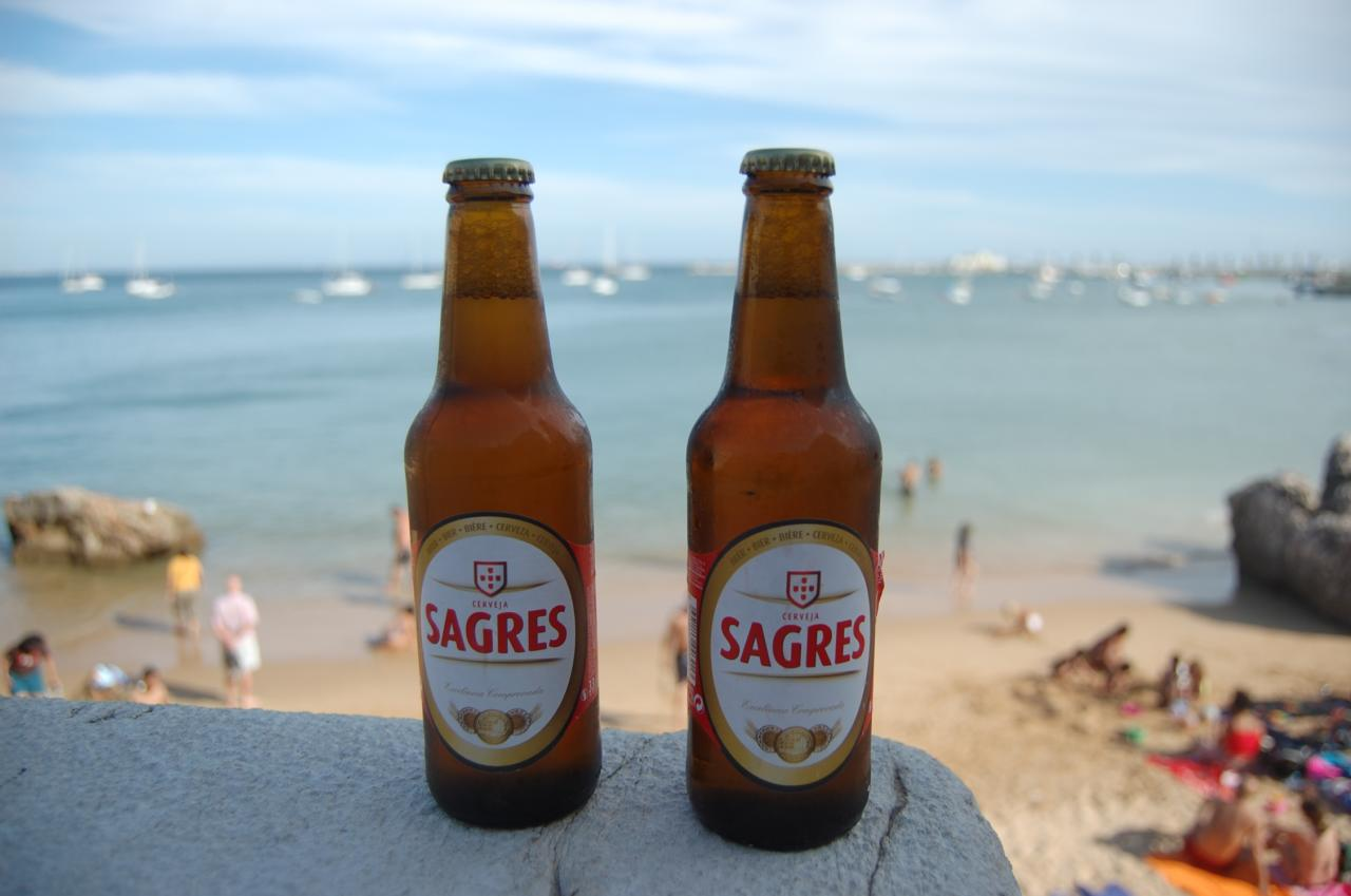 Sagres Beer in Cascais Beach